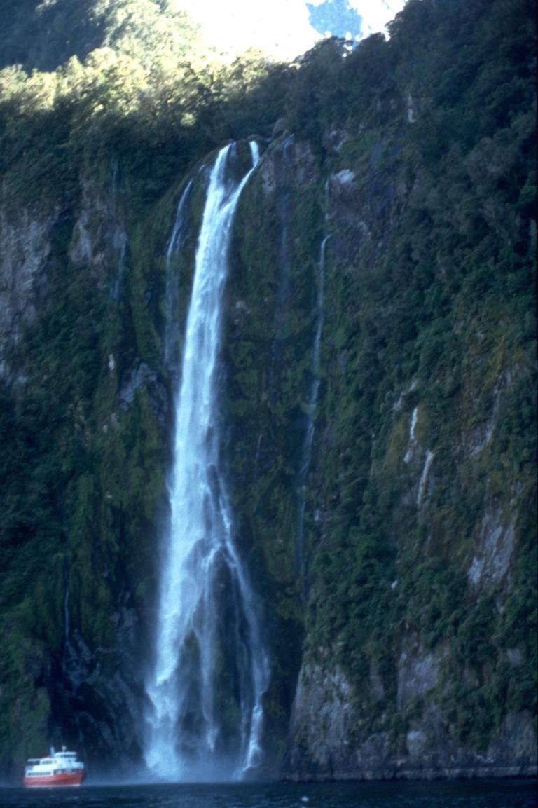 Stirling Falls on Milford Sound, Fiordland, New Zealand. Note the ship for size reference.